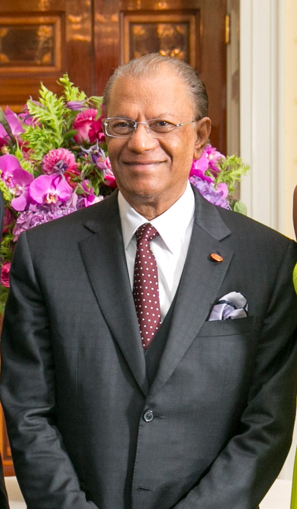 Portrait of Navin Ramgoolam